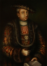 Bogislaw X of Pomerania